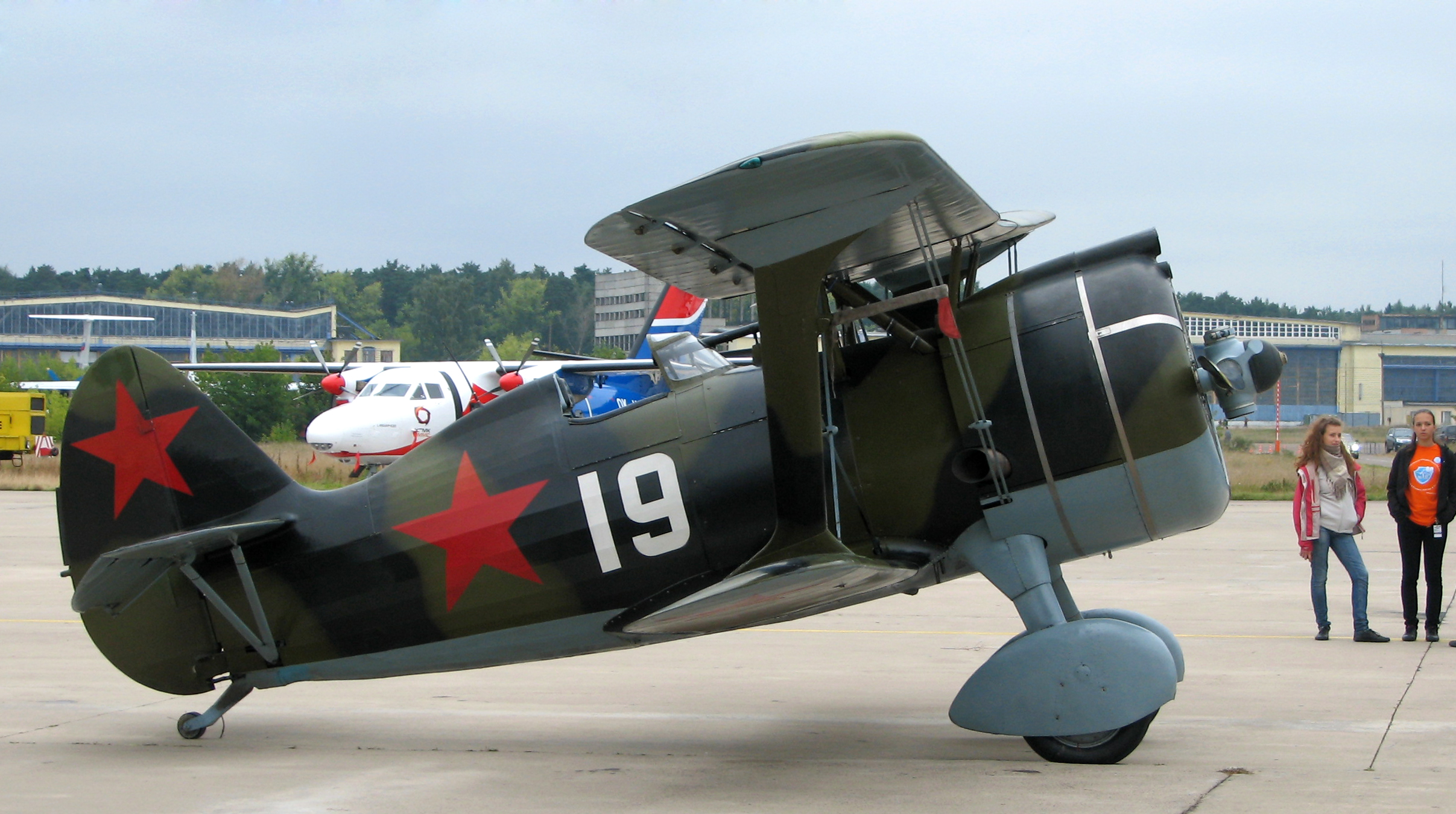 Polikarpov I-15 bis (The international aerospace salon MAKS-2009)